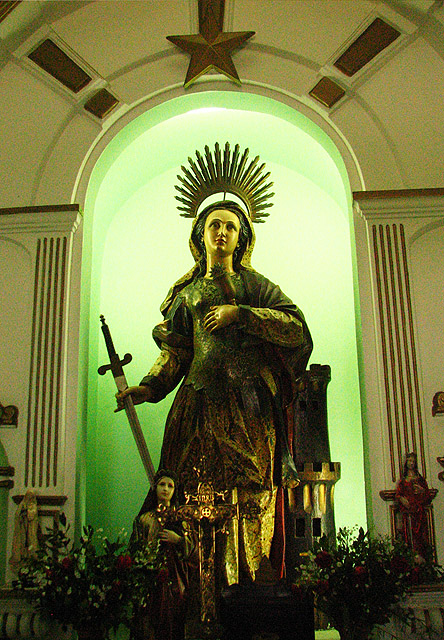 St Barbara statue inside Santa Cruz Fortress in Niterói, Brazil